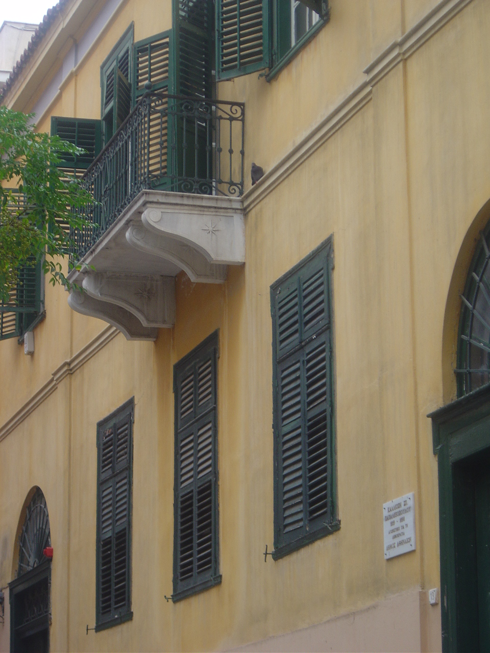 Paparrigopoulos mansion in Plaka, Athens, Greece